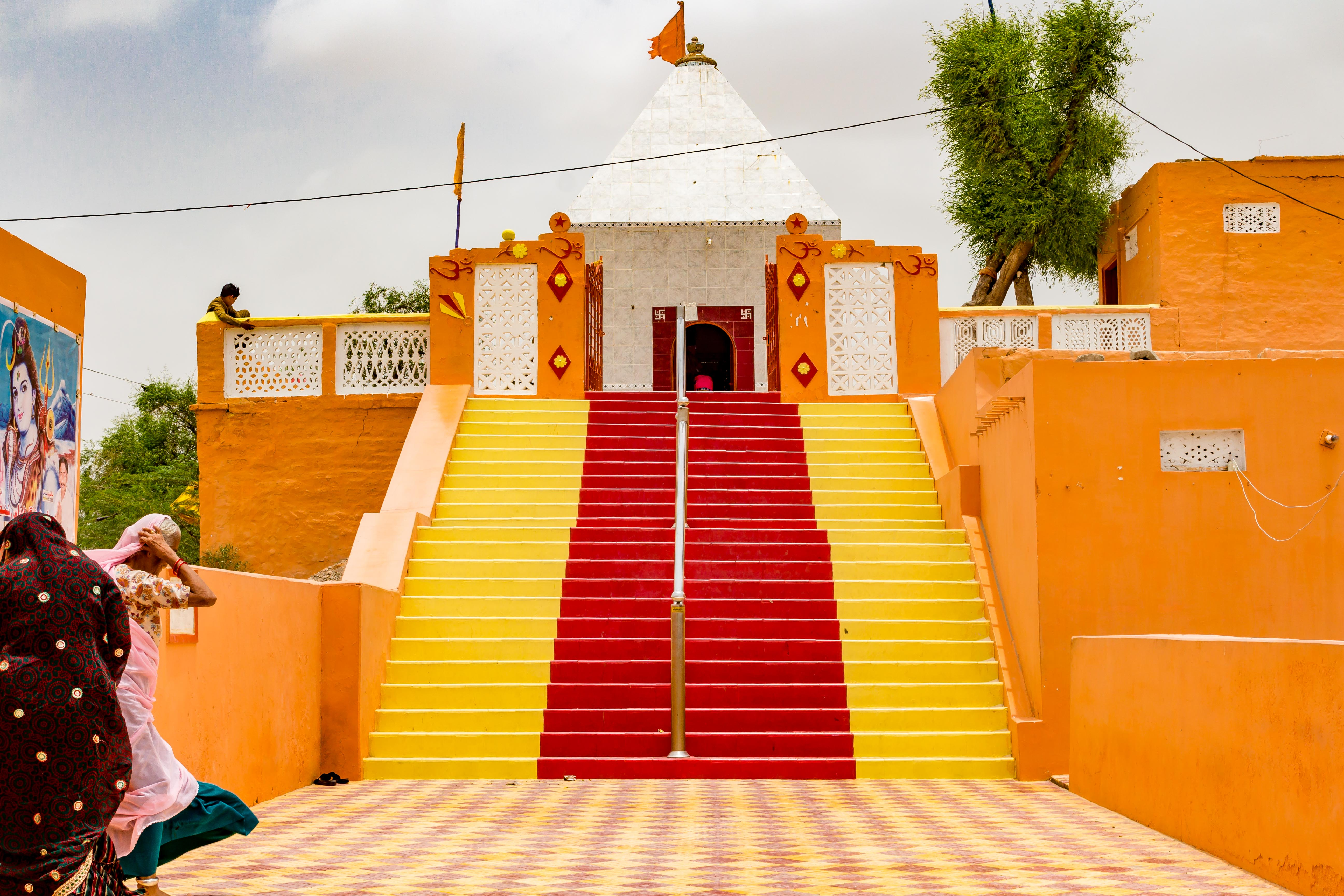 Shiv Mandir (Temple) Umerkot Sindh This is a photo of a monument in Pakistan identified as the SD-U-30